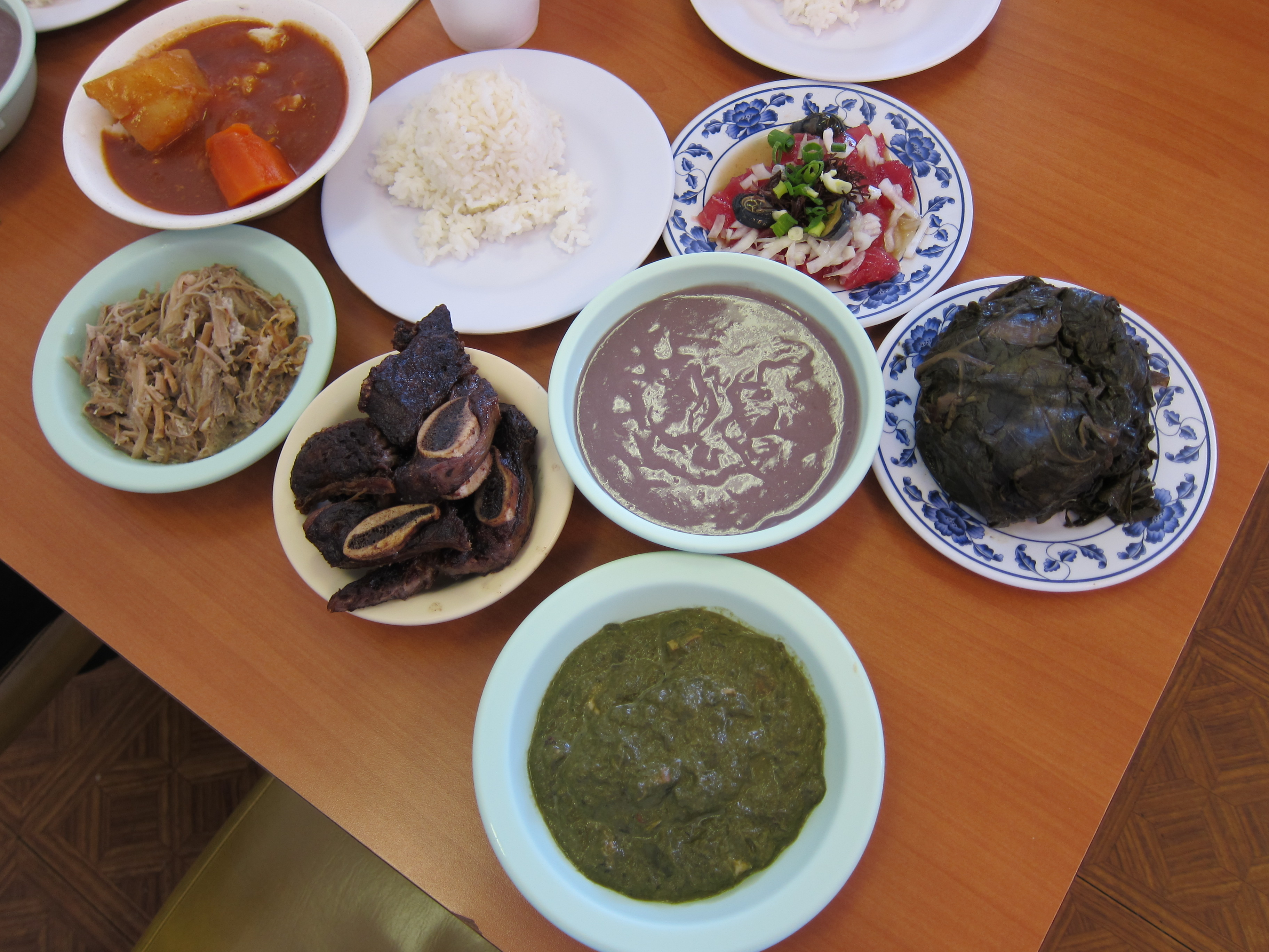 Some Hawaiian dishes. From top left, clockwise: tripe stew, rice, opihi poke, laulau, squid luau, pipikaula shortribs, kalua pig, and poi in the center.